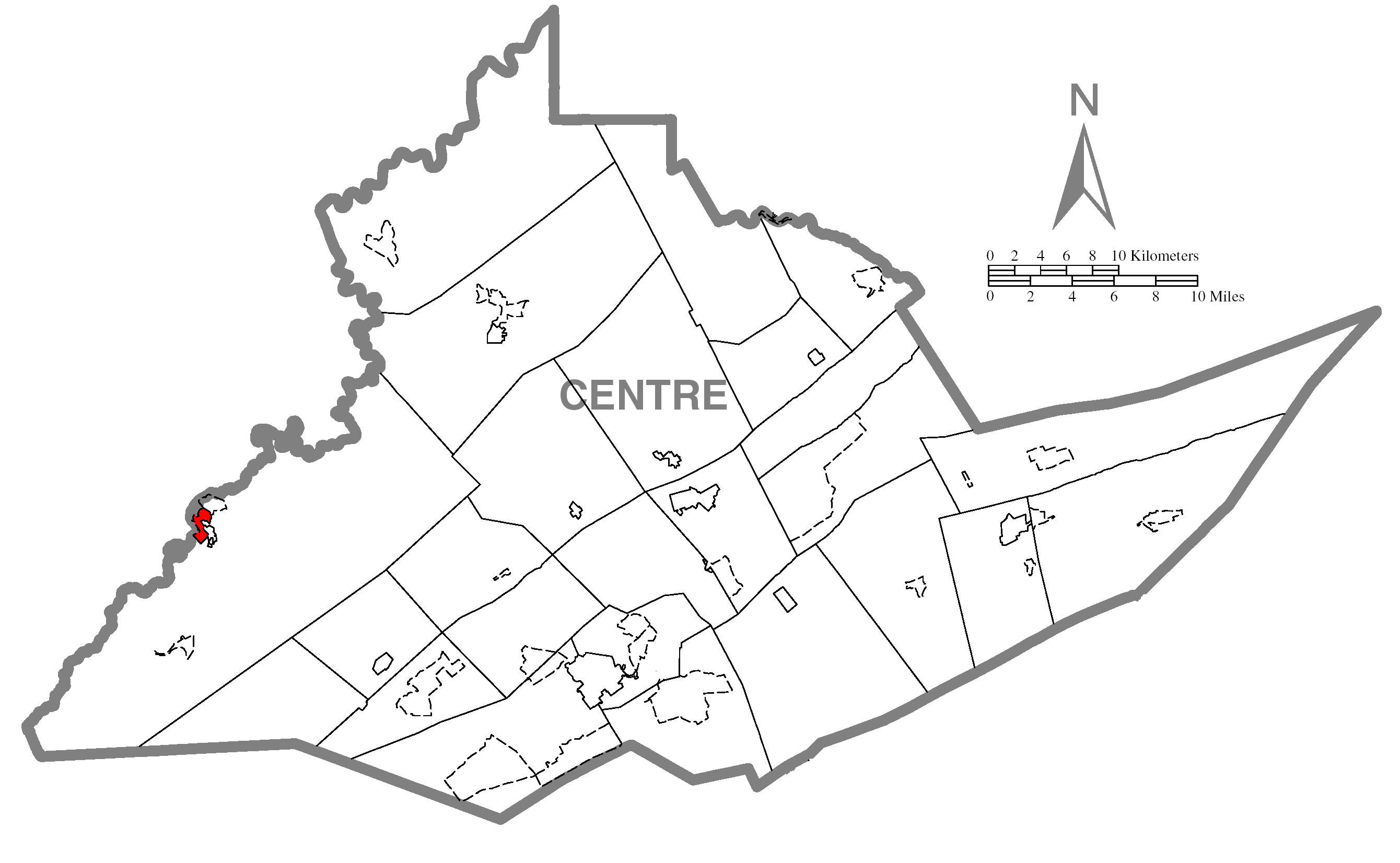 A map of Centre County showing South Philipsburg, Pennsylvania (alternate) highlighted on the map.